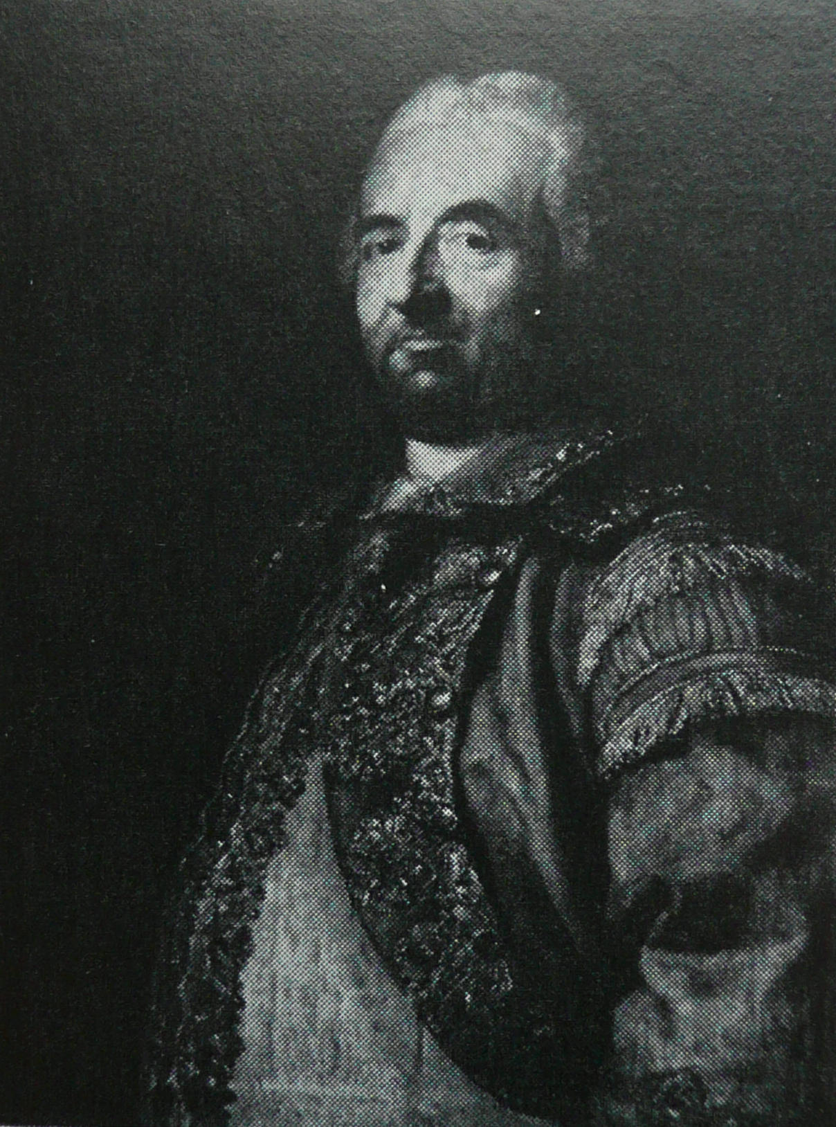 Christlieb Ehregott Gellert (1713-1795), famous saxon metallurgist and mineralogist.